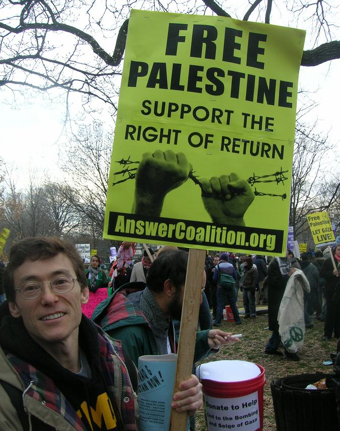 Right of Return protest poster at January 10, 2009 protest against Israel invasion of Gaza at Lafayette Park, between White House and U.S. President-elect Barack Obama's temporary hotel residence.